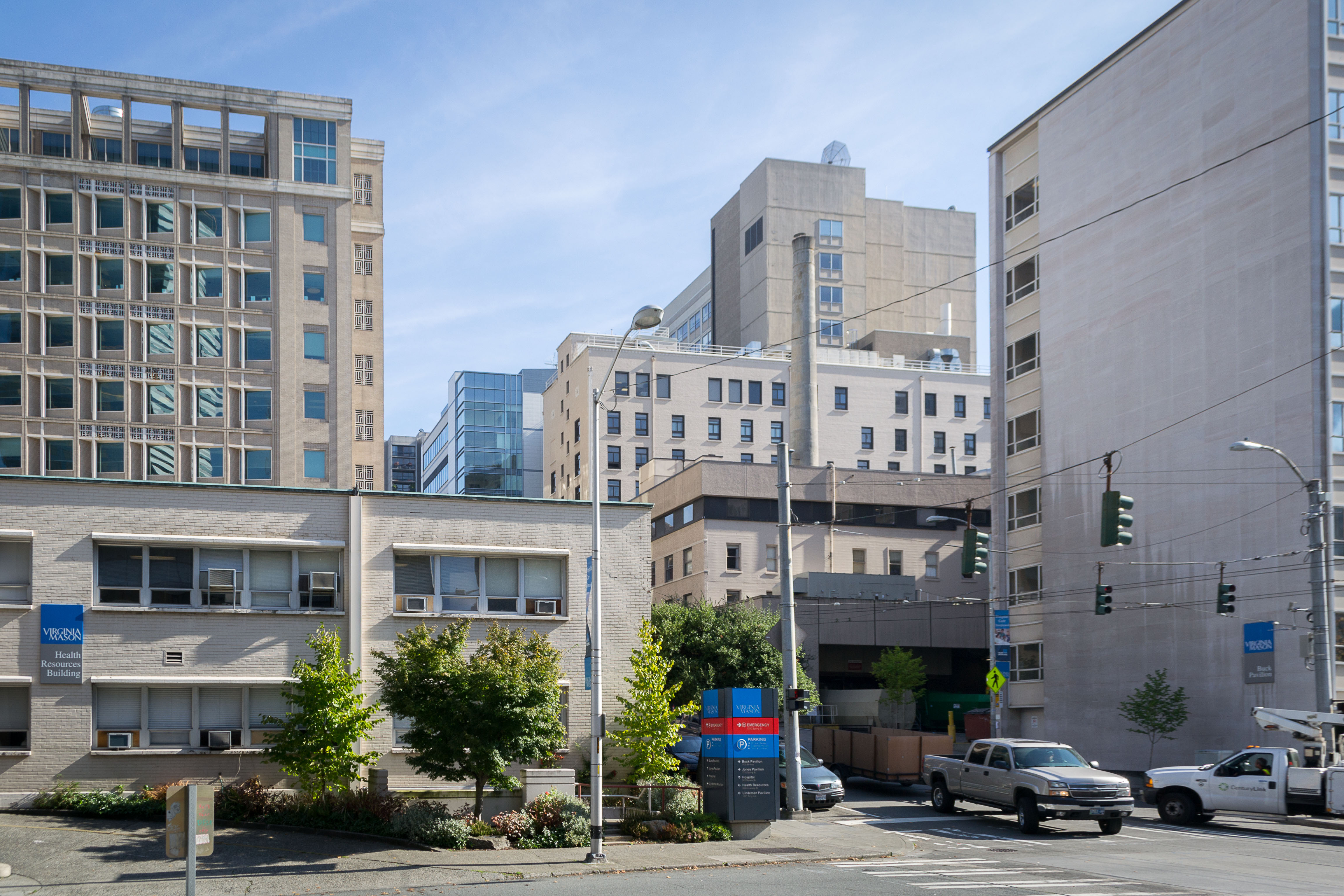 A view of the main campus at Virginia Mason Medical Center